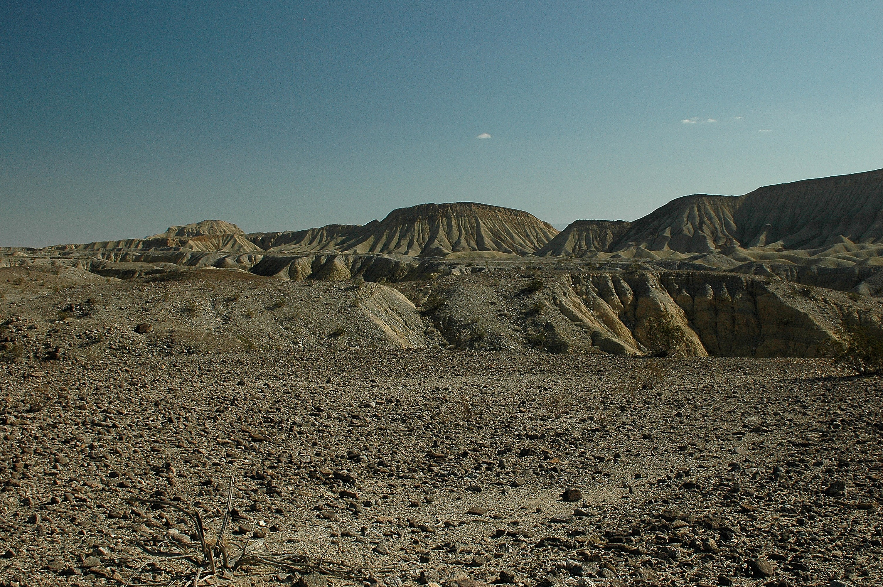 Looking Southwest from the Wind Caves across the Carrizo Badlands